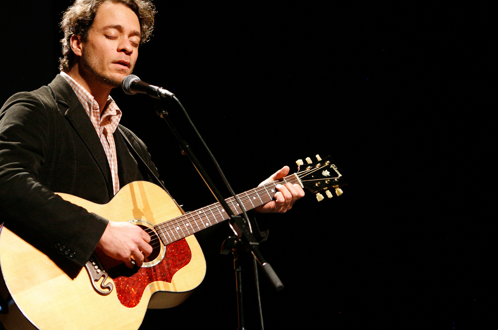 Amos Lee performing at Pop!Tech 2008. Photographed by Kris Krug.